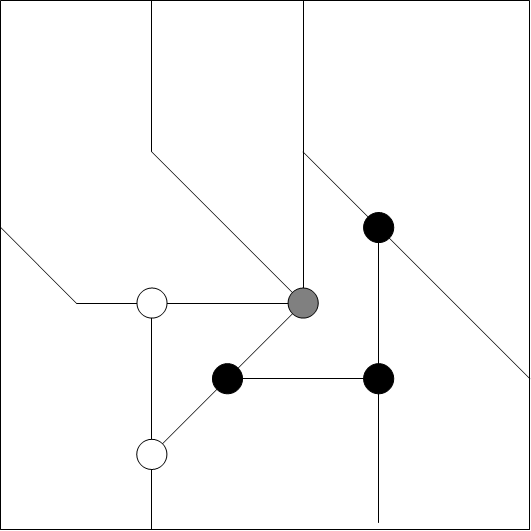 Stained Glass puzzle grid